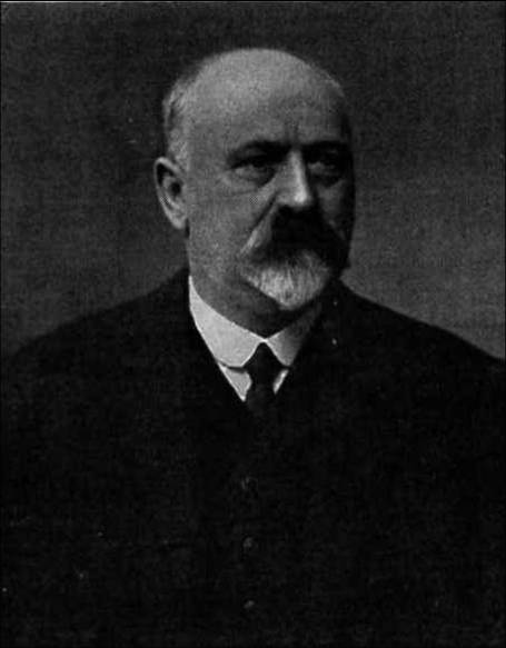 Picture of the felibre Loís Roquièr taken from the book Contes a la troubilho (1925)